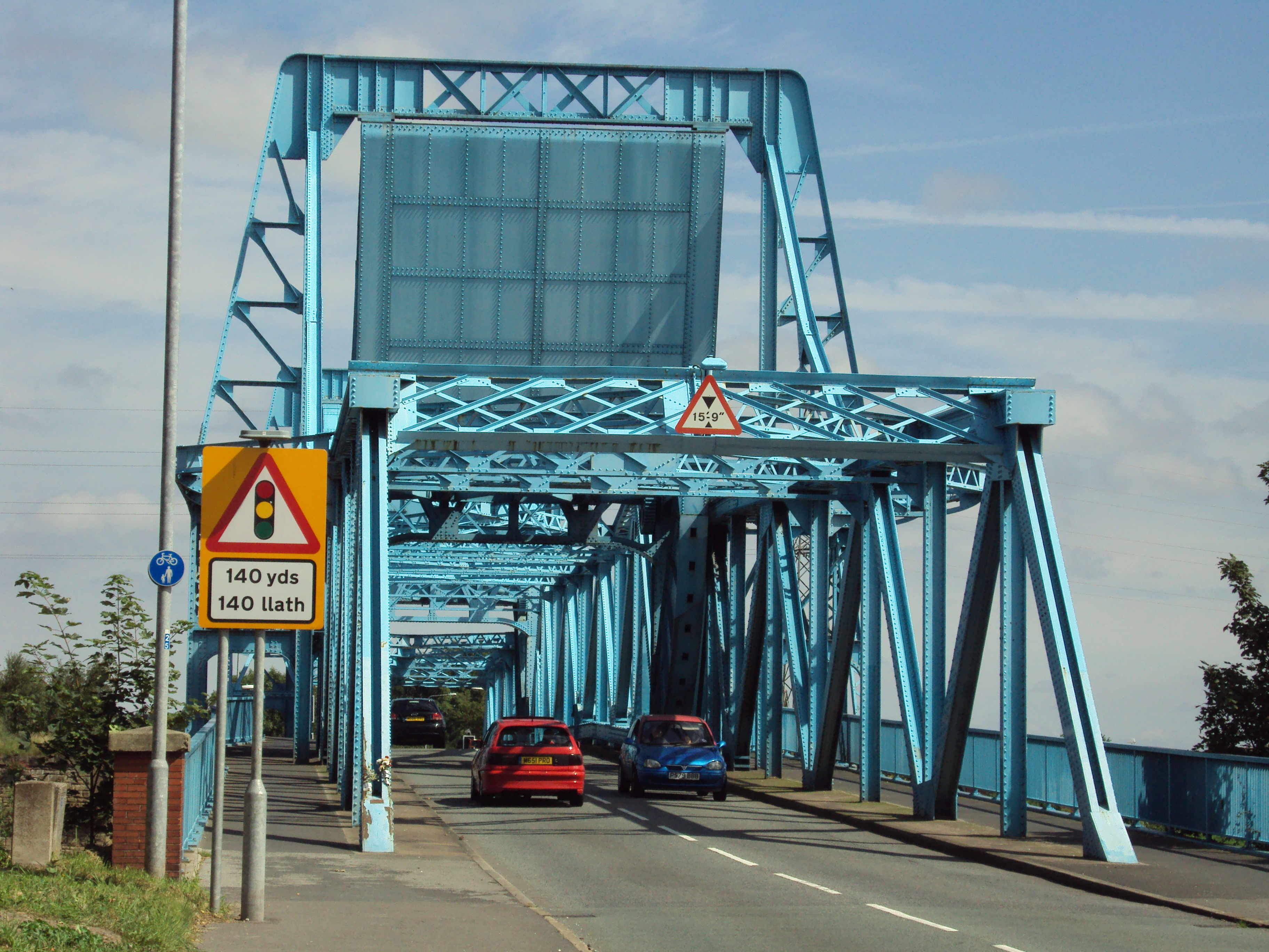 The Blue Bridge carries the B5441 (Station Road - Welsh Road) pedestrian and road traffic over the river Dee, connecting Queensferry to Garden City, Deeside, Flintshire, Wales.